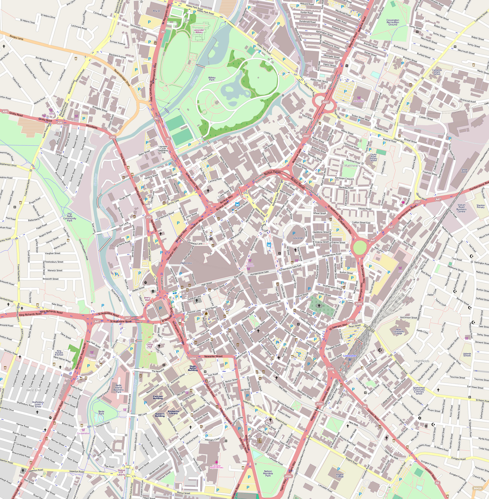 Map of Leicester Central Geographic limits: N: 52.6503° S: 52.6244° W: -1.154° E: -1.1122°